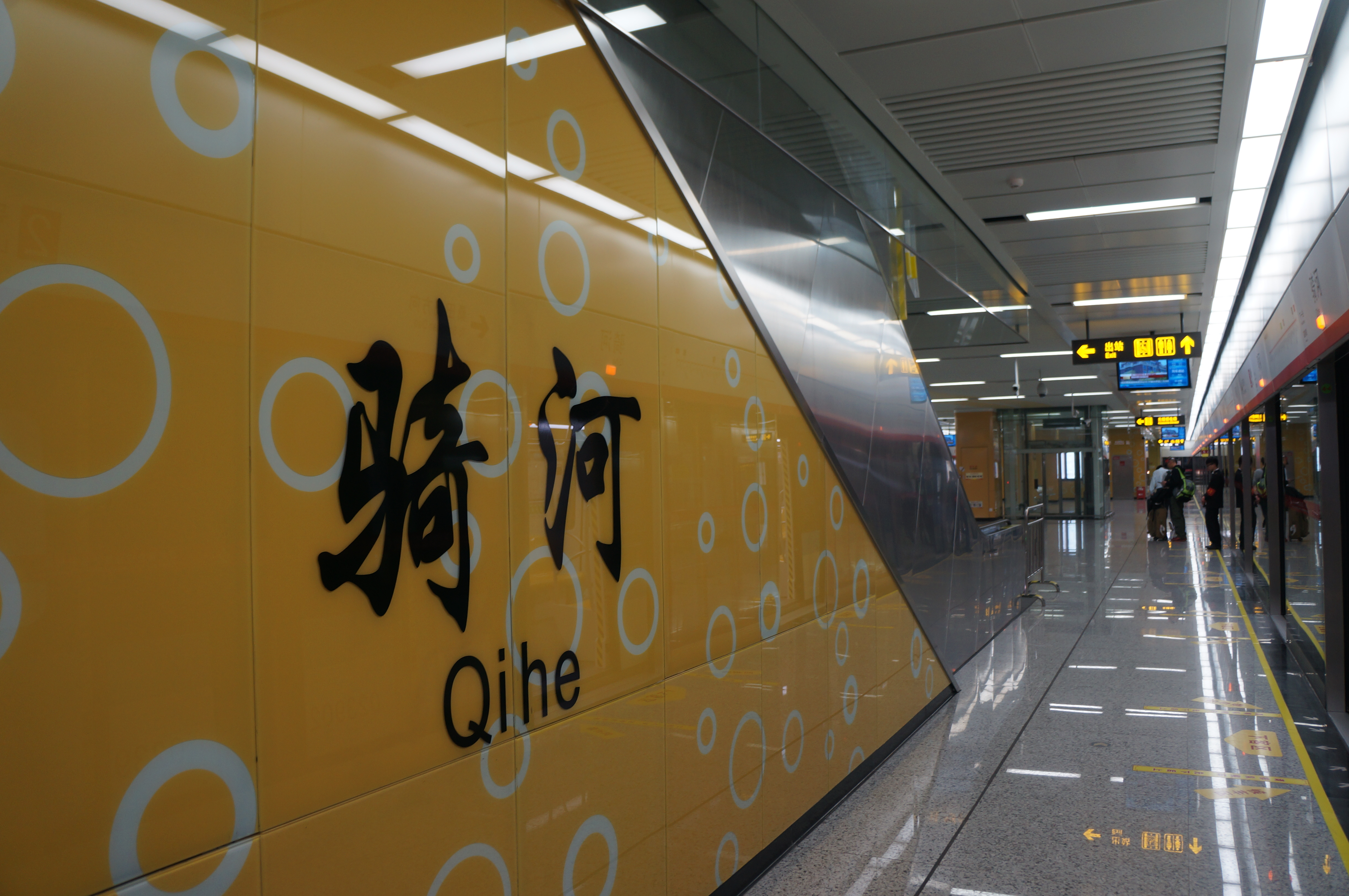 201610 Nameboard of Qihe Station